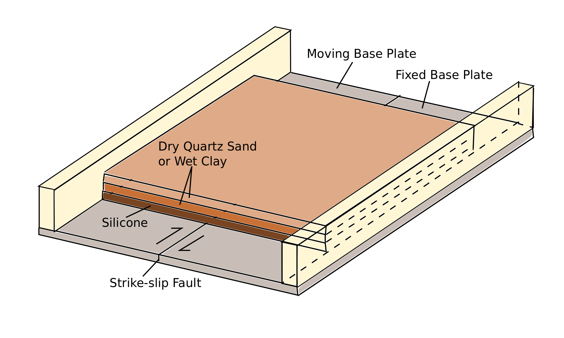 This is the simplified model setting for shear deformation from Dooley and Schreurs (2012) 's work. (update)